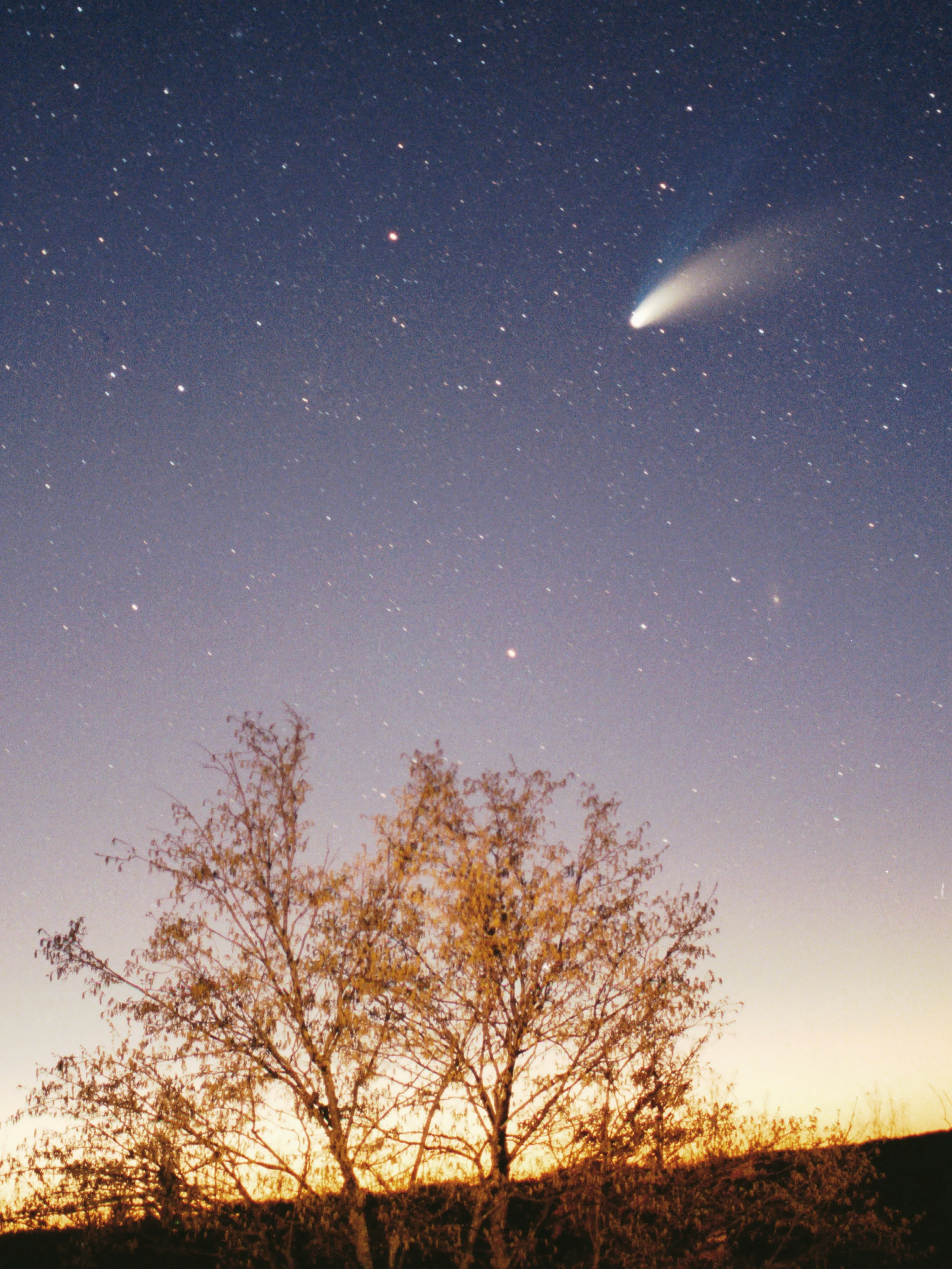 Photo of the comet Hale-Bopp above a tree. This picture was taken in the vicinity of Pazin in Istria/Croatia. The tree was illuminated using a small flashlight. To the lower right of the comet, the Andromeda Galaxy M31 is also faintly visible.